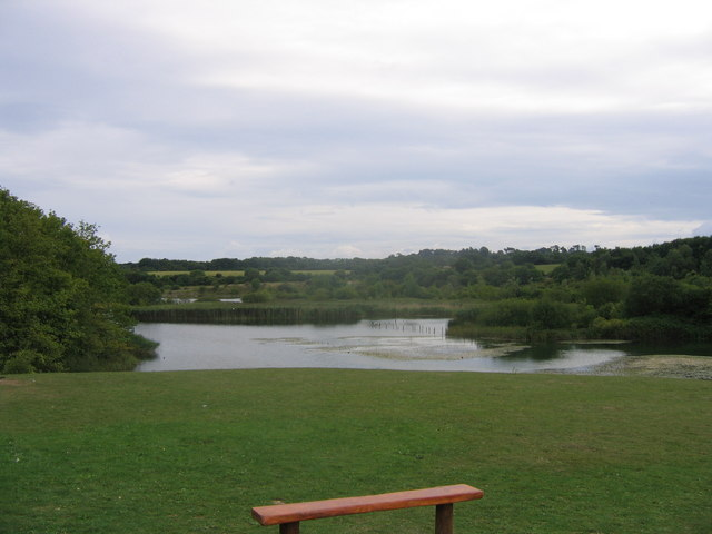 Cosmeston Lake. The lakes in Cosmeston Lakes Country Park are man made from disused quarry workings and now are an important bird sanctuary and recreational area.